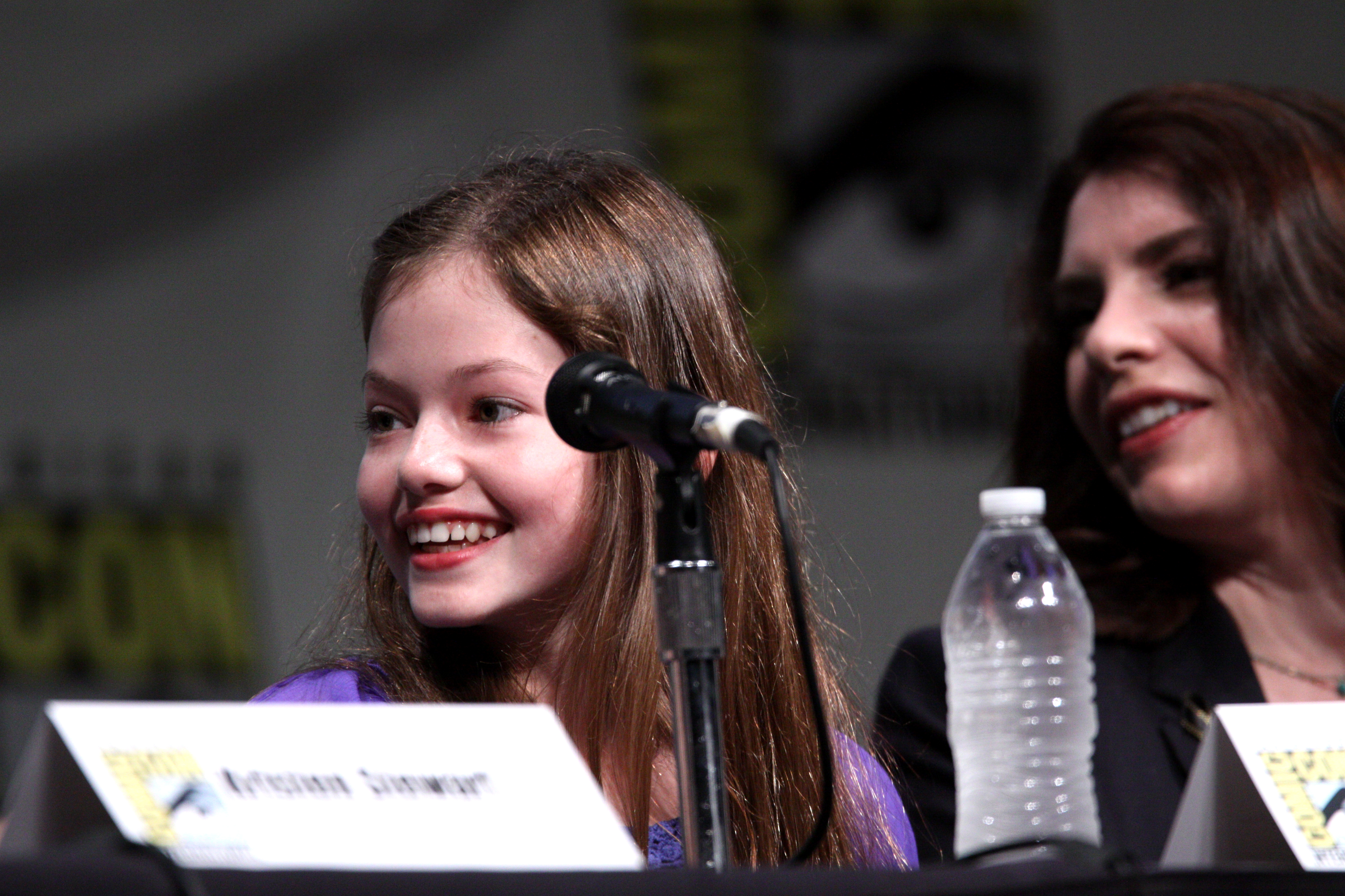 Mackenzie Foy speaking at the 2012 San Diego Comic-Con International in San Diego, California.